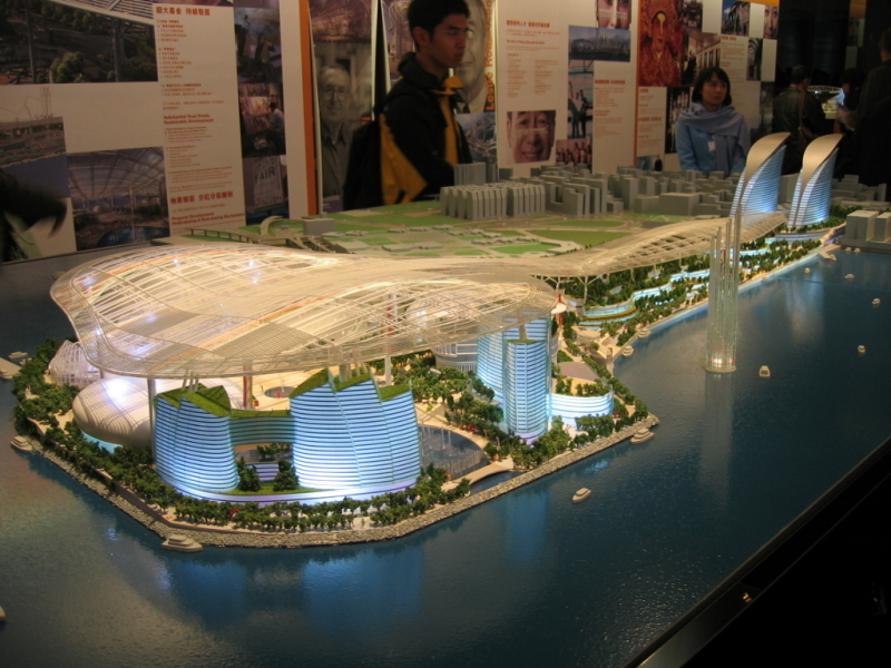 West Kowloon Cutural District (World City Culture Park Project)